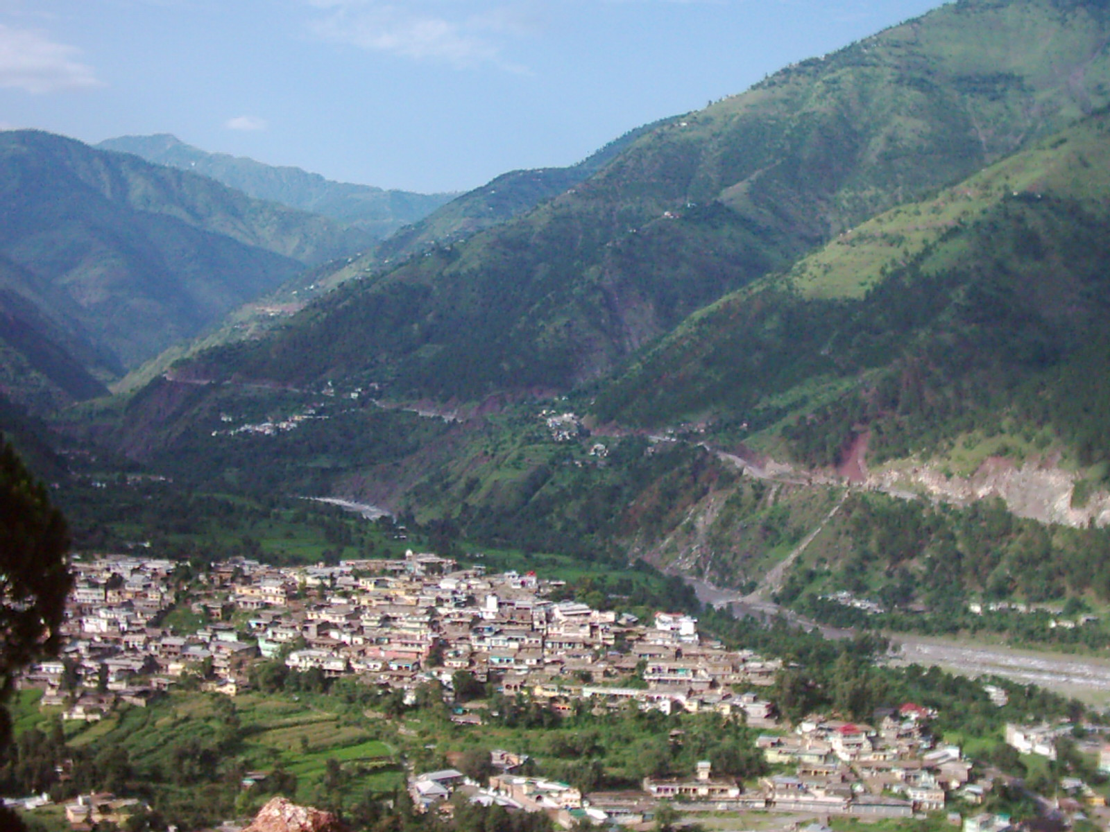 Raawais 18:23, 10 October 2007 (UTC)